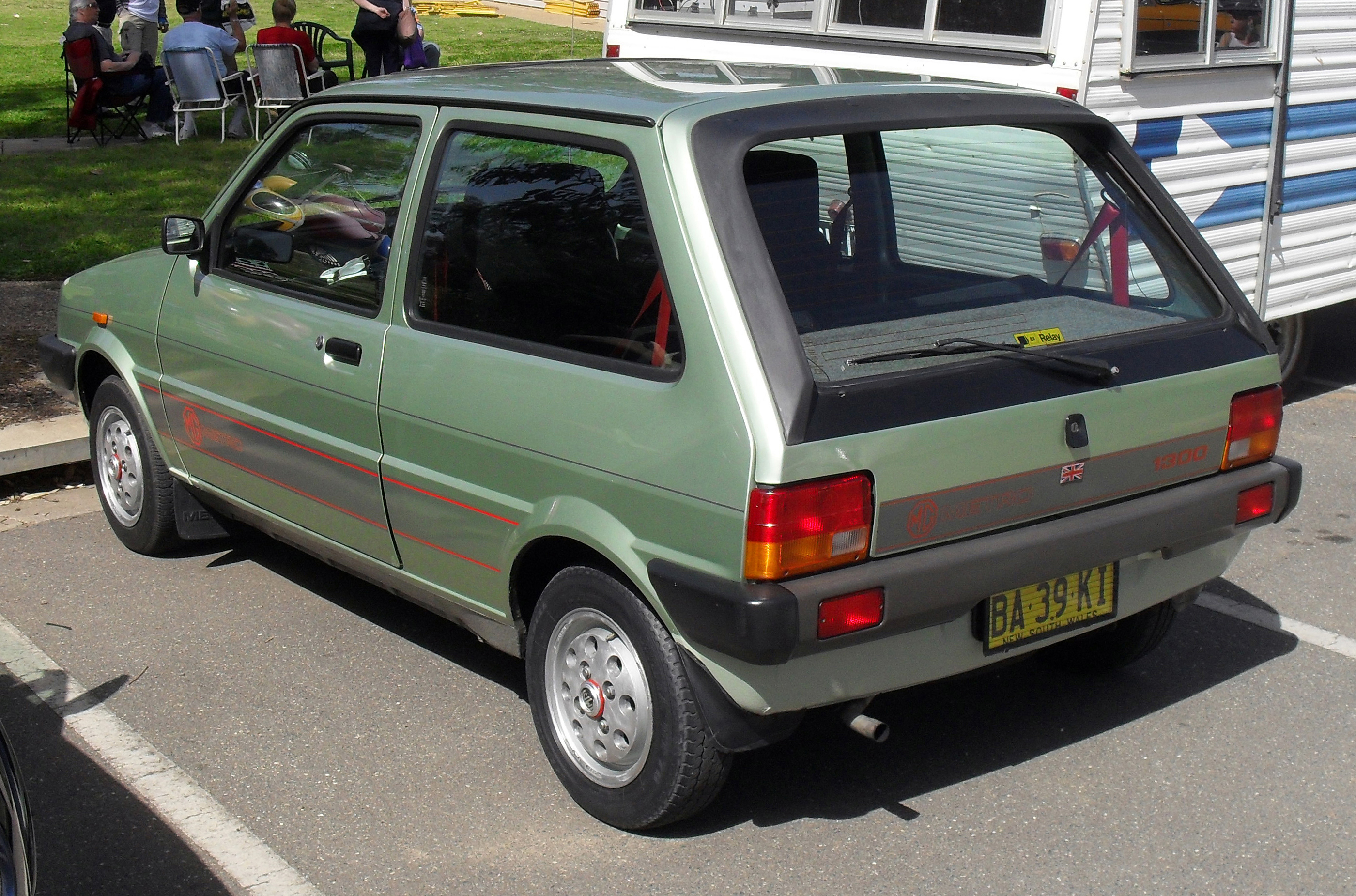 1982-1990 MG Metro 1300 3-door hatchback photographed in New South Wales, Australia.